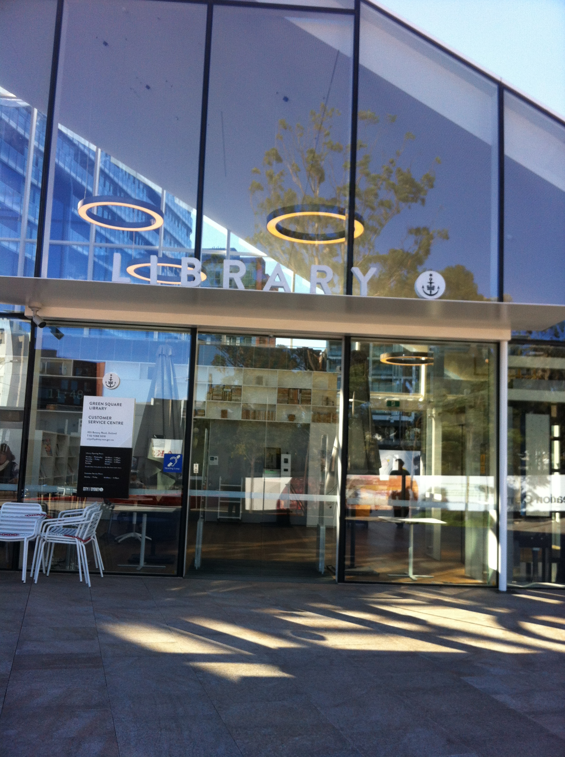 Entrance to the library at Green Square, Sydney